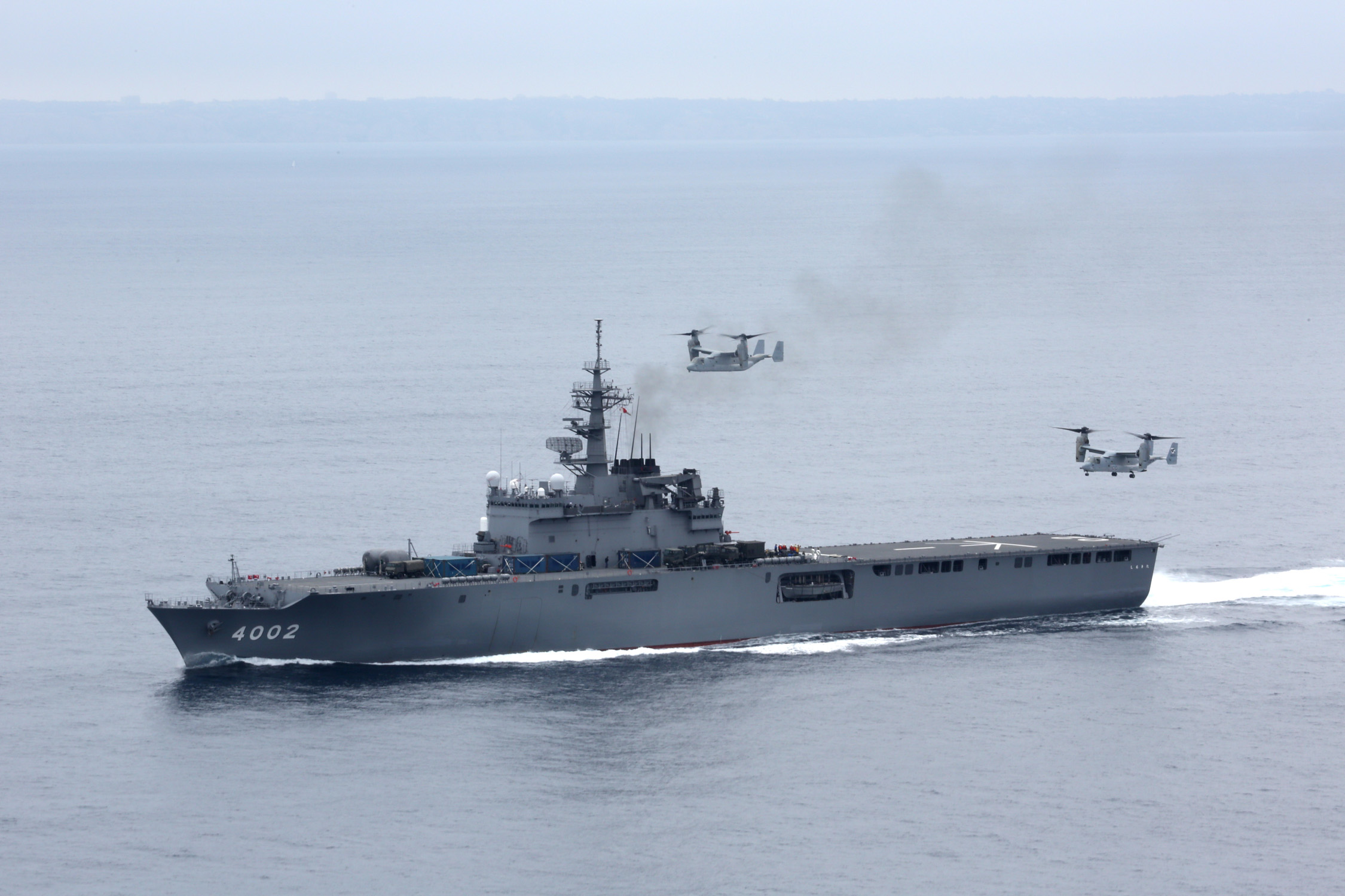 PACIFIC OCEAN (June 14, 2013) MV-22B Ospreys with Marine Medium Tiltrotor Squadron 161 land aboard the Japan Maritime Self-Defense Force ship JS Shimokita during Dawn Blitz 2013. Dawn Blitz is a scenario-driven exercise led by the U.S. 3rd Fleet and 1 Marine Expeditionary Force that will test participants in the planning and execution of amphibious operations through a series of live training events.